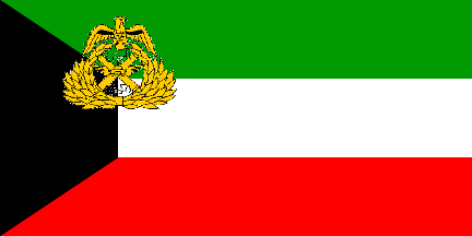 Army flag 1978-?